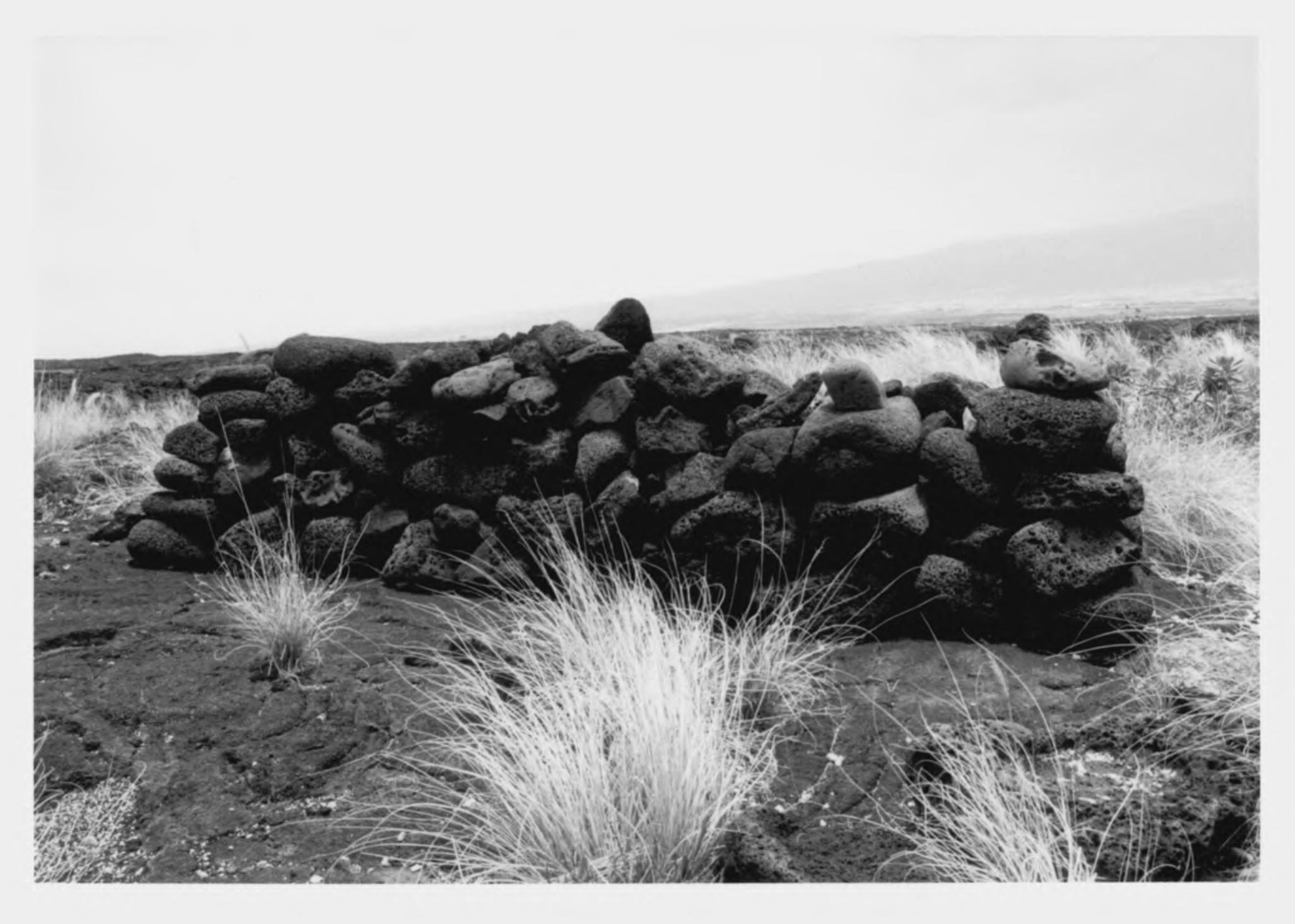 Kalaoa Permanent Settlement, located on Keahole Point, Hawaii County, Hawaii, is on the National Register of Historic Places